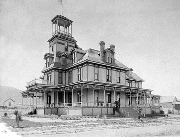 View of the Monte Vista Hotel located at present day Fenwick Street and Floralita Avenue in Sunland (then Monte Vista).